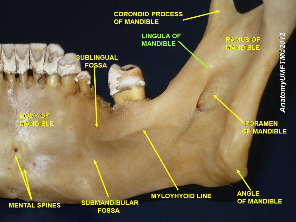 Anatomical dissections